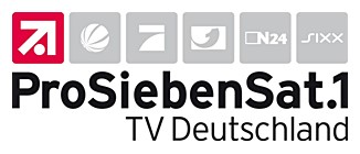 Logo of the German media company "ProSiebenSat.1 TV Deutschland" (2010)